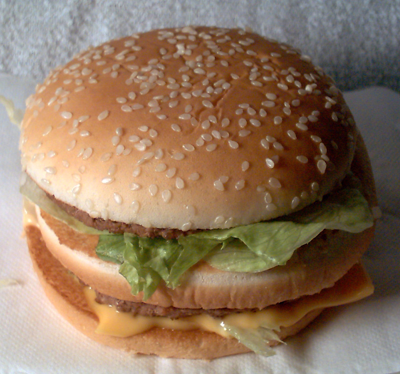 Bigmac_McDonald's・Tokyo,_Japan photography day, 2006/10/24 photography person kici 日本マクドナルド